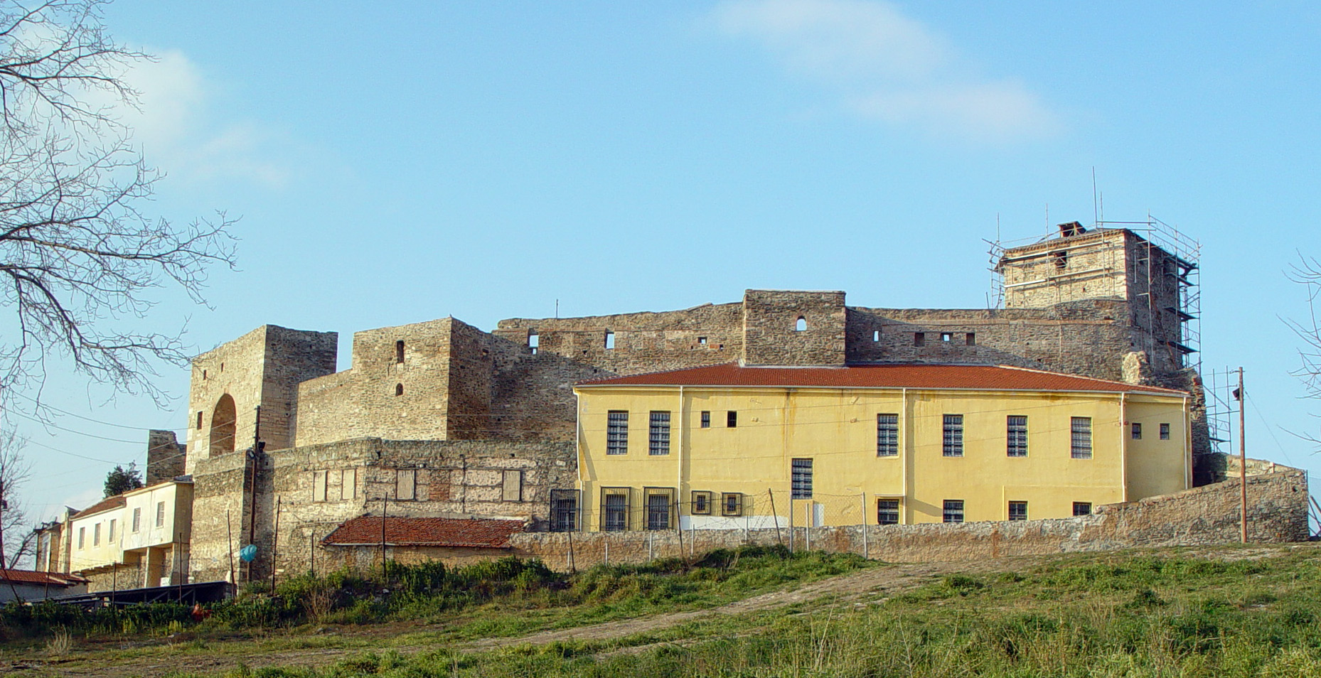 The Heptapyrgion fortress, an Ottoman reconstruction of a Byzantine fort on the Thessaloniki acropolis (1431). Detail of the masonry with spolia. Photograph taken by Marsyas 09:57, 28 February 2006 (UTC)